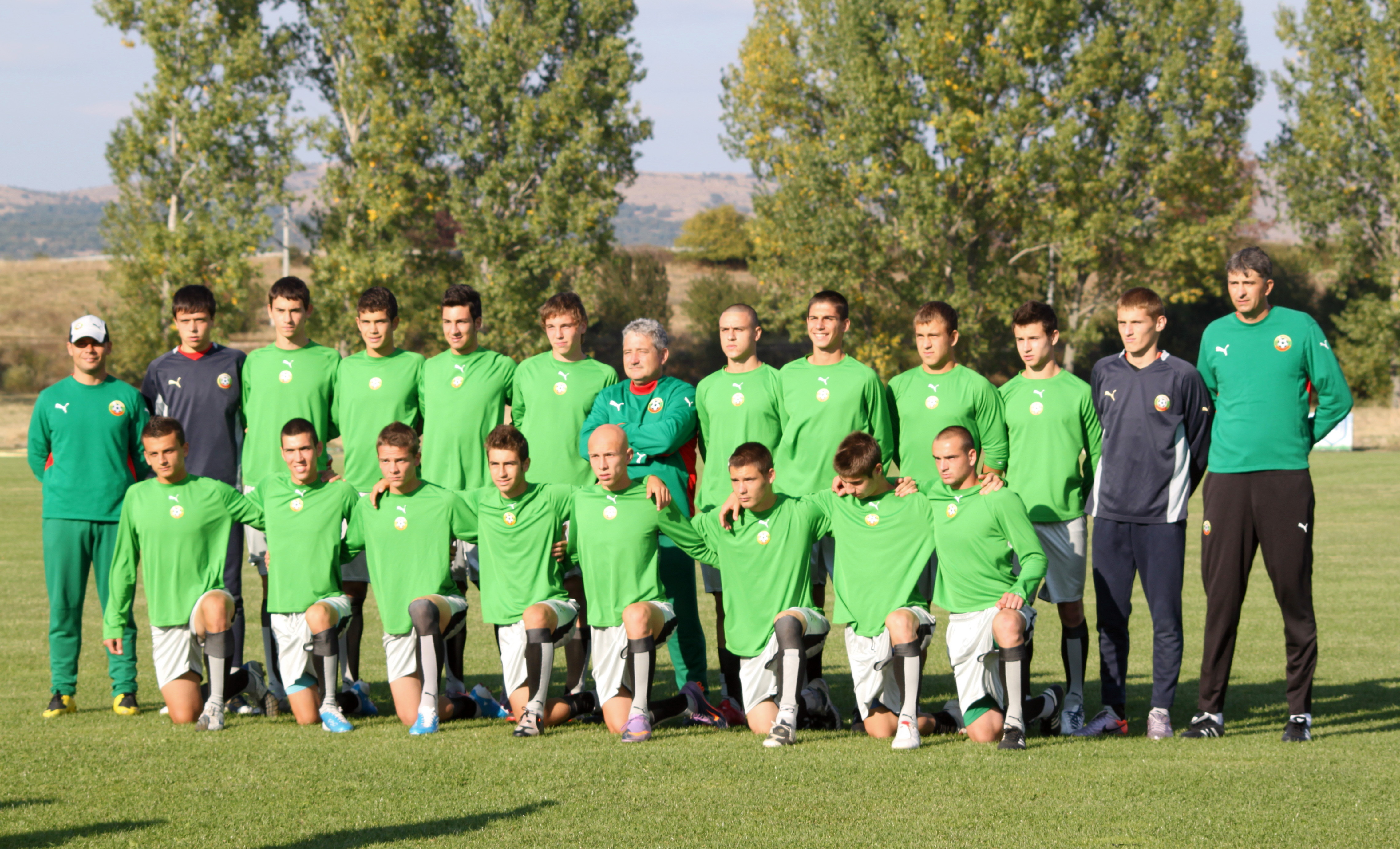 Bulgarian niational football team U-17, 24-09-2010